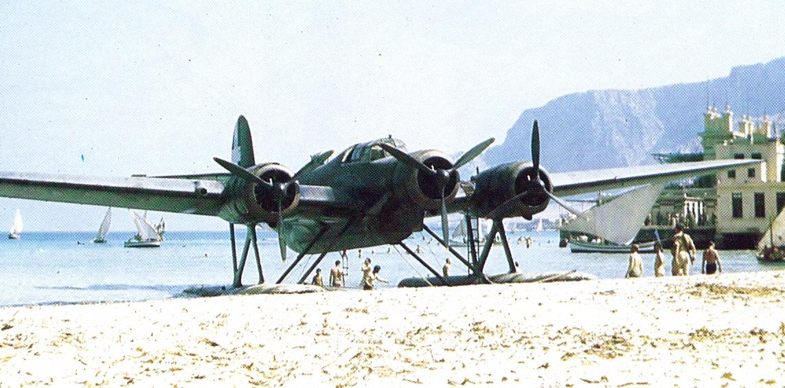 Italian CANT Z.506B floatplane forced down on Mondello beach in Sicily